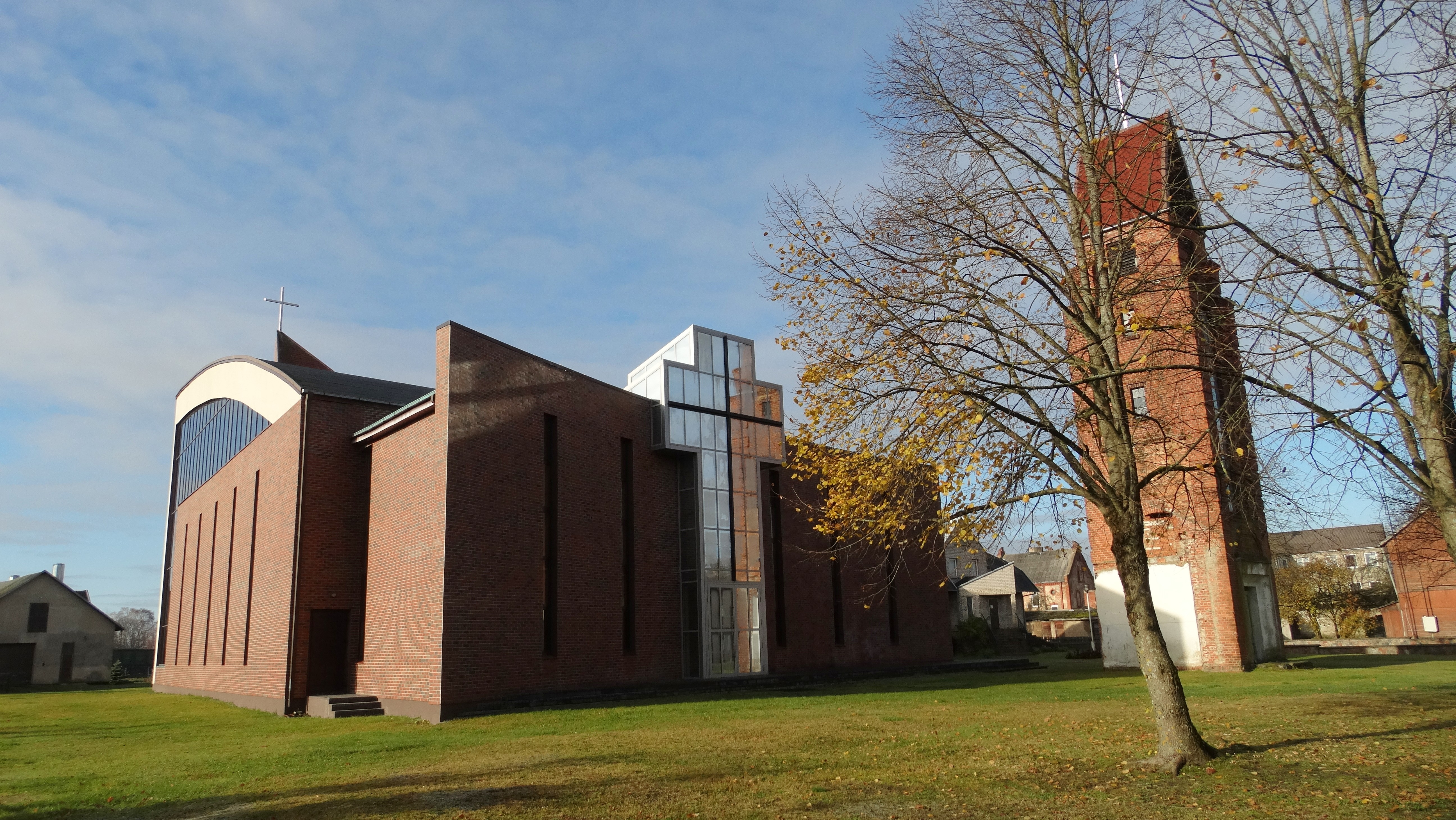 Roman Catholic Church, Pagėgiai, Lithuania